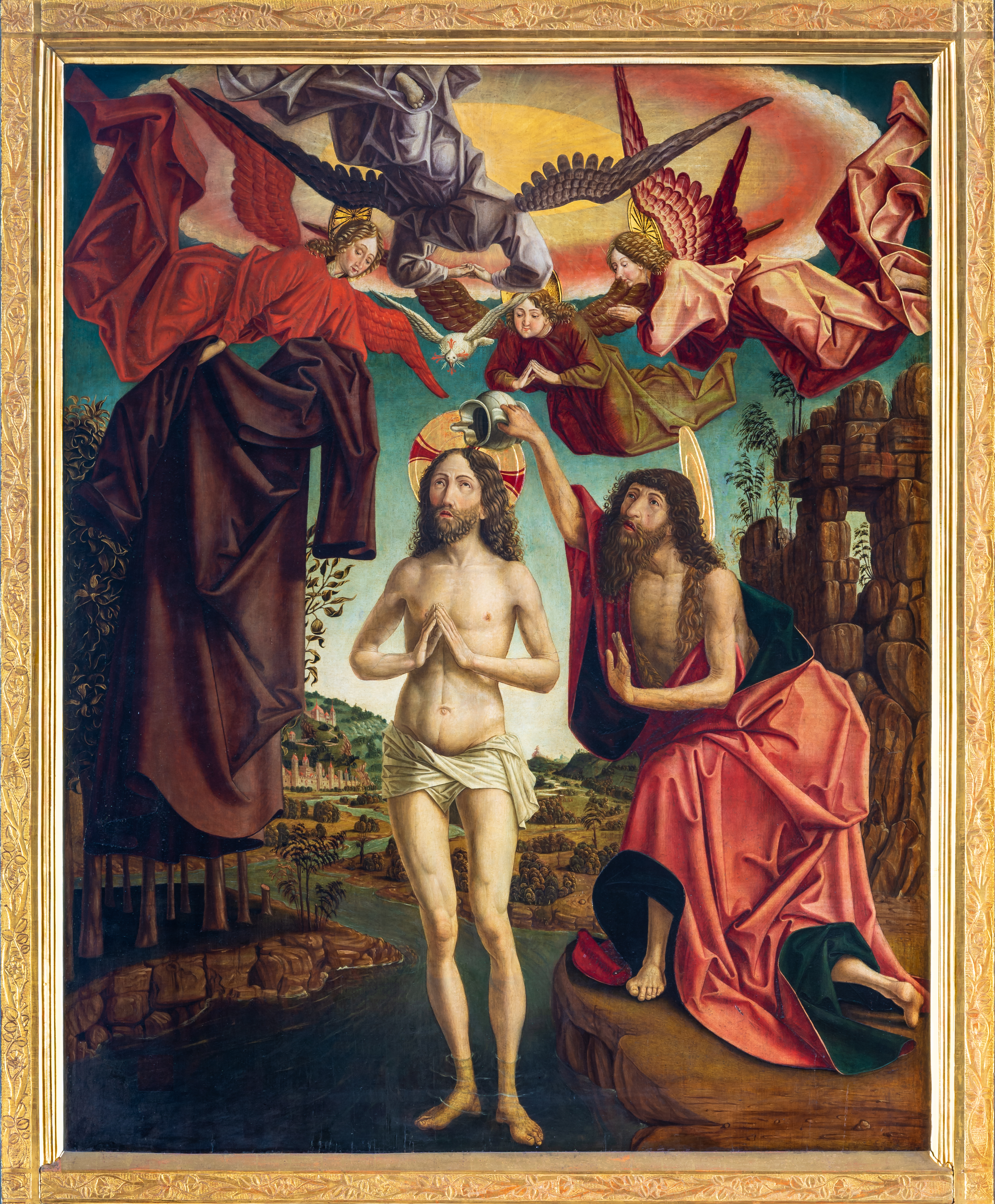 The Baptism of Christ at the St. Wolfgang Altarpiece of the Catholic parish- and pilgrimage church St. Wolfgang im Salzkammergut, Upper Austria. Michael Pacher, 1471–79, set up in 1481.